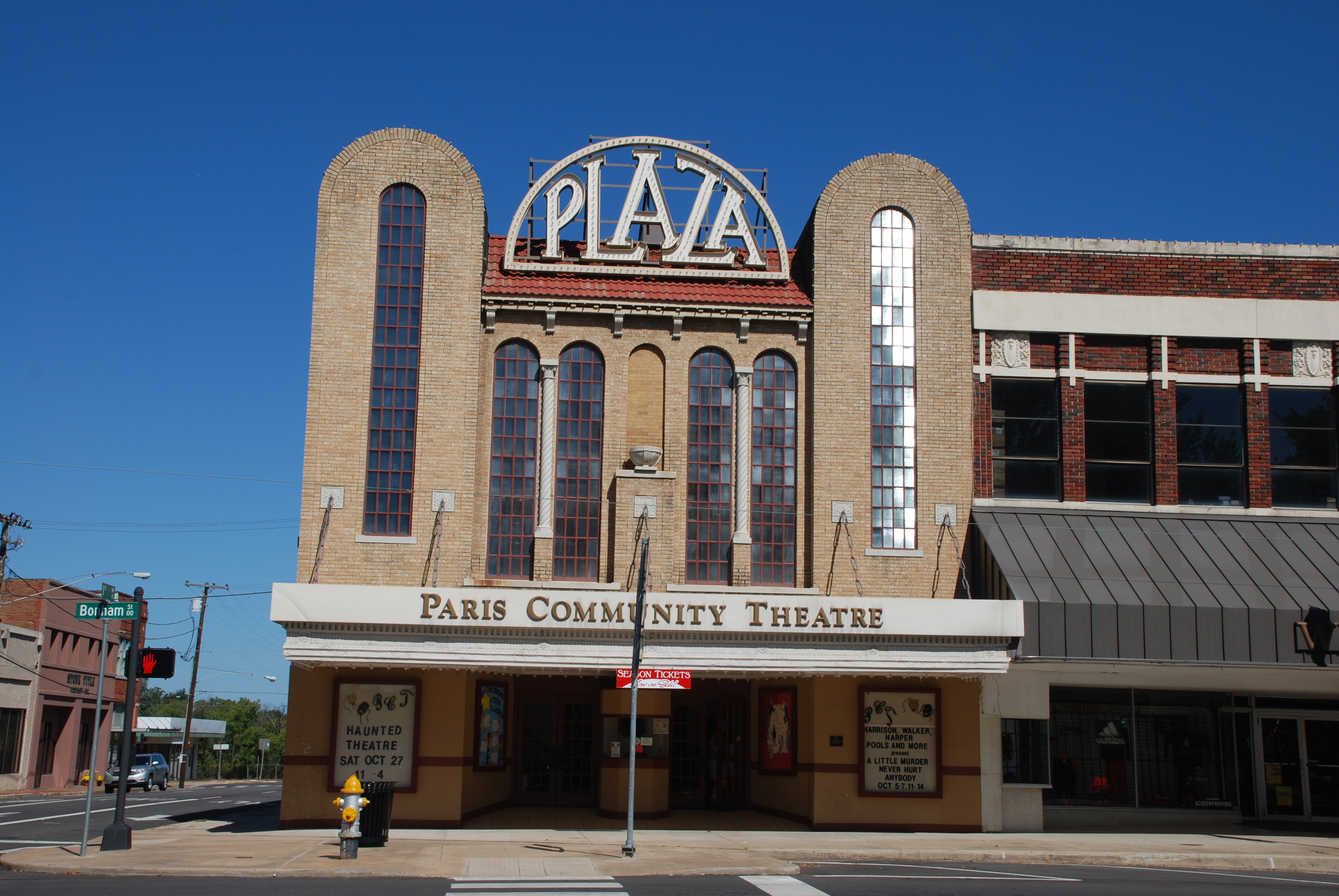 Paris Community Theater building, Paris (Texas, USA)